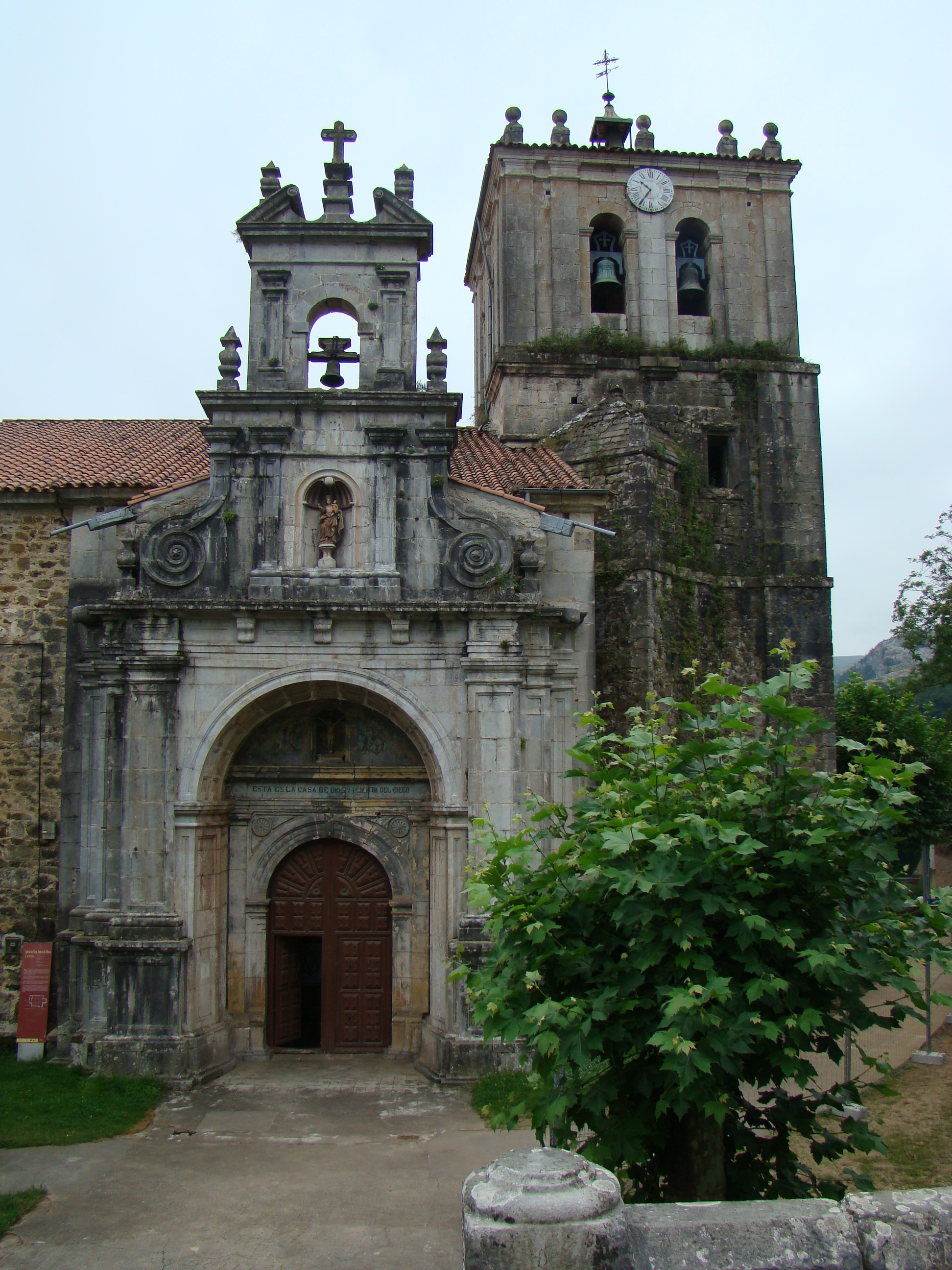 Church of Santa María de la Asunción or also called church of Nuestra Señora de Miera de La Cárcoba in the municipality of Miera, Cantabria, Spain. It was registered as Heritage of Cultural Interest in 1988.